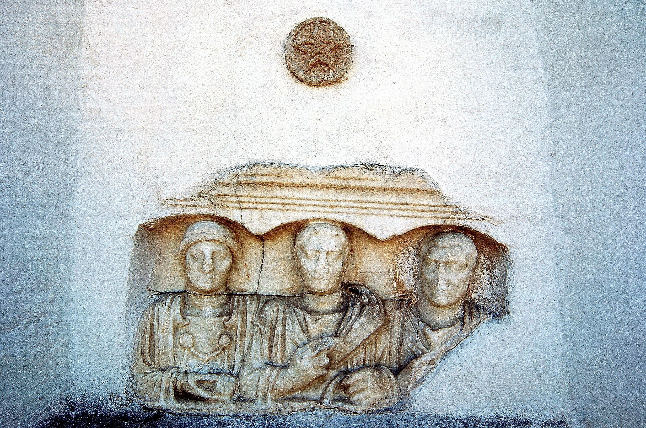 Roman alcove gravestone (middle of second century A.D.) with the reliefs of busts a woman and two men (CSIR II/2,156), set up at the exterior apse wall of the parish church Saint George in Sternberg, municipality Wernberg, district Villach Land, Carinthia, Austria, EU